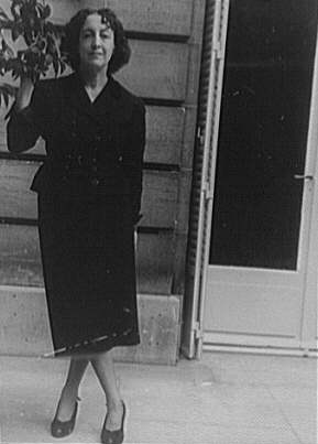 Portrait of Marie-Laure de Noailles